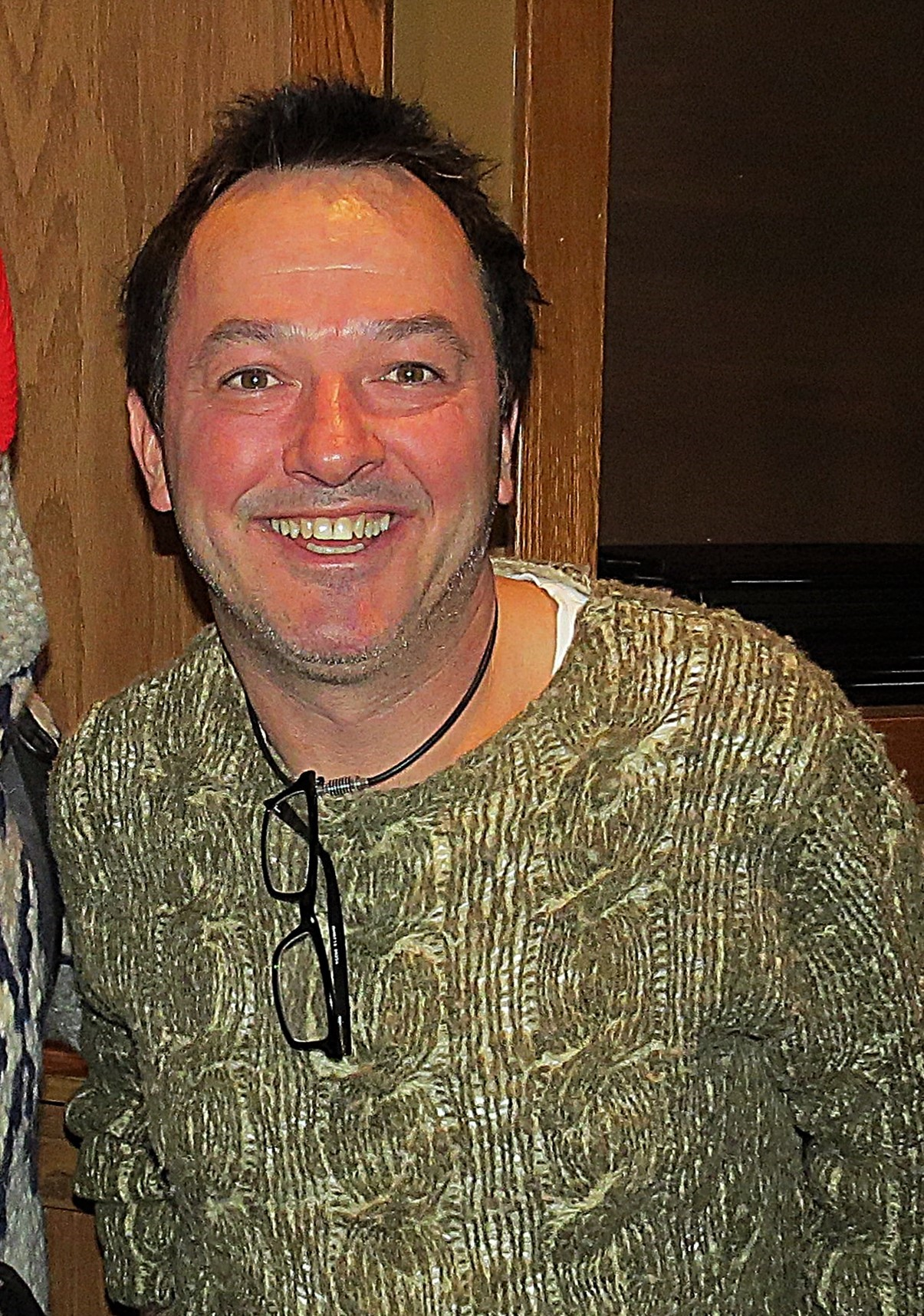 Jimmy Rankin